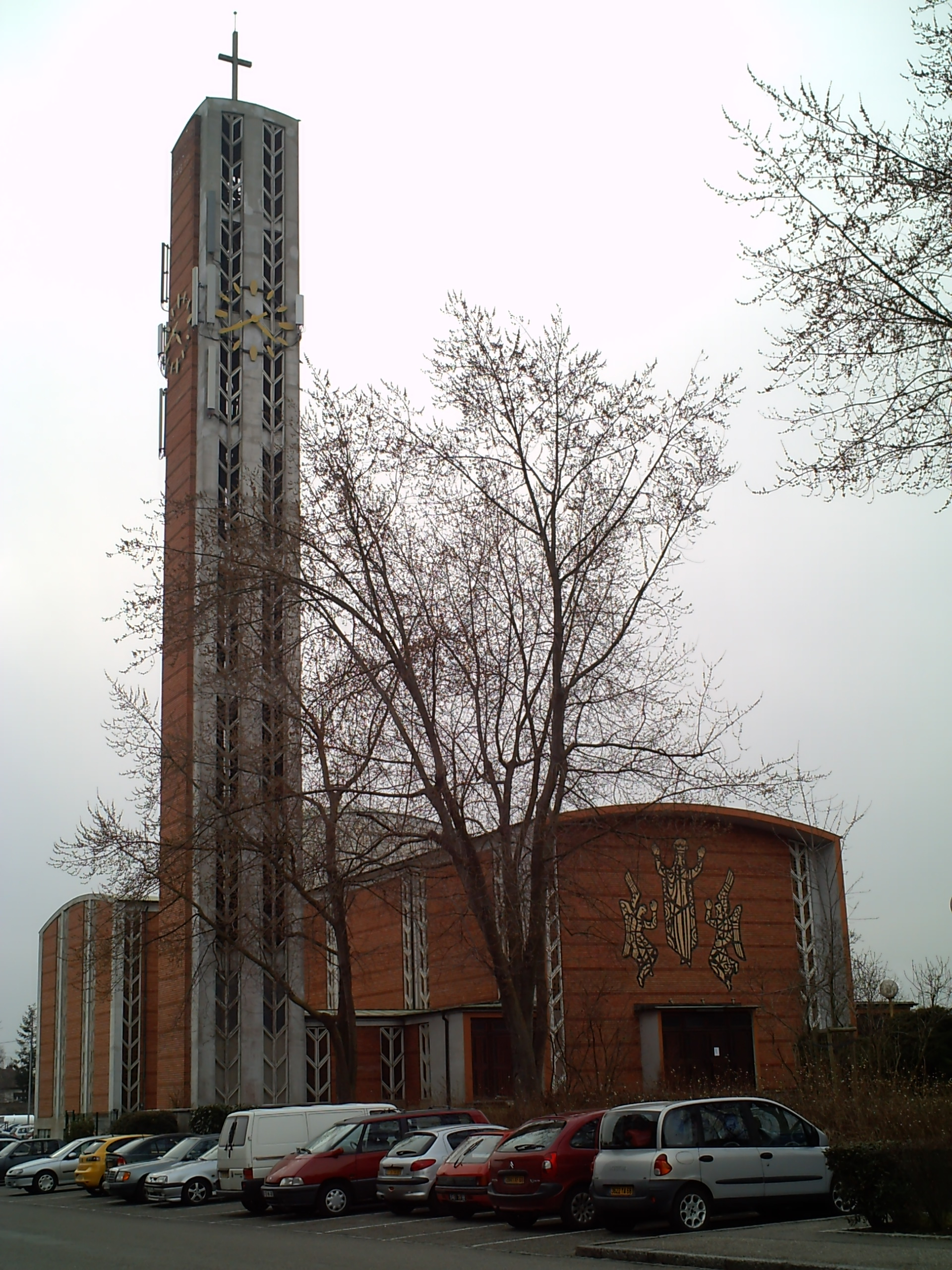 The church "Notre-Dame-de-la-Paix" in Saint-Louis.